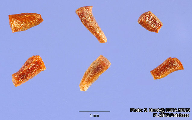 Seeds of Eucalyptus camaldulensis Dehnh.